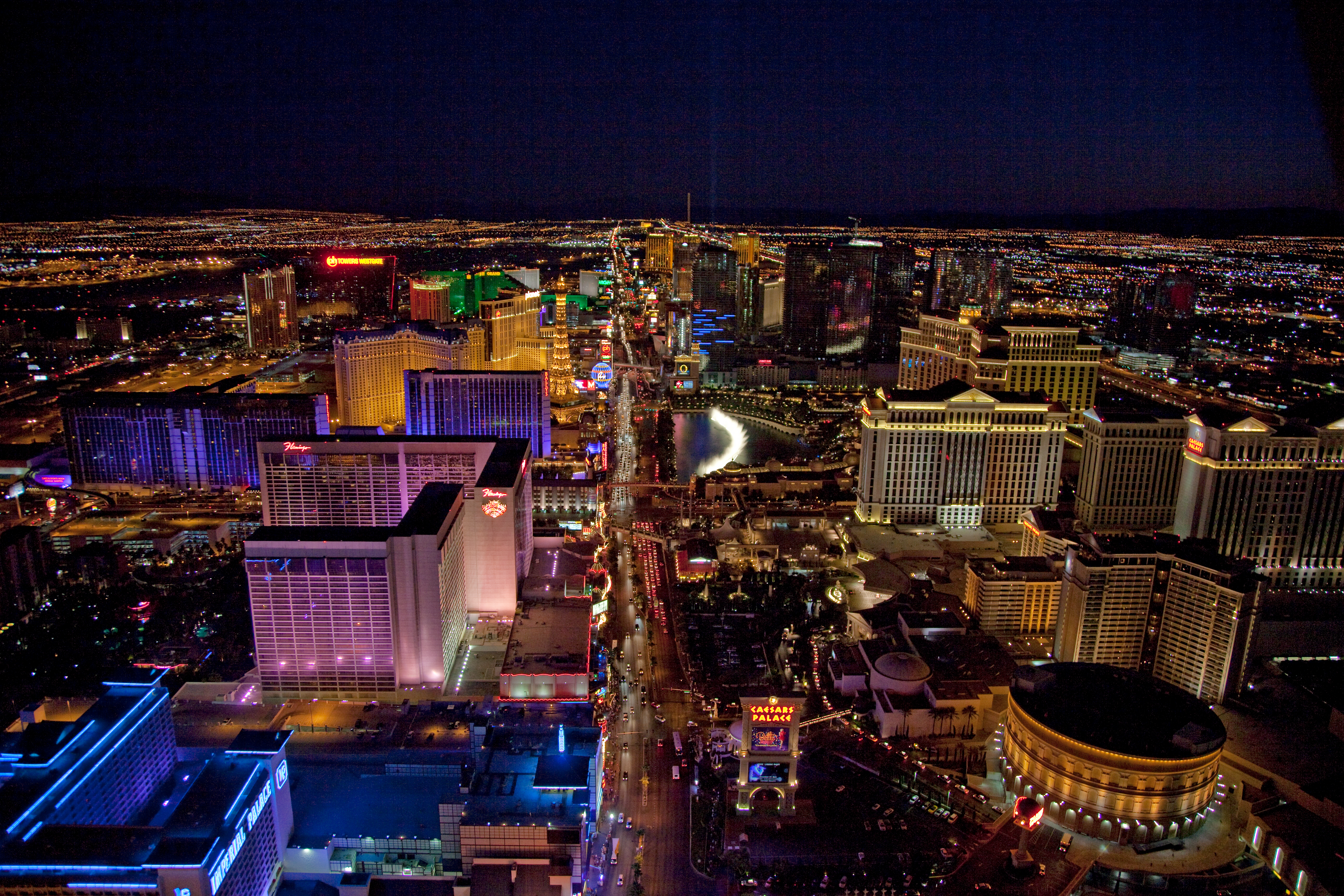 Night aerial view, Las Vegas, Nevada, USA.